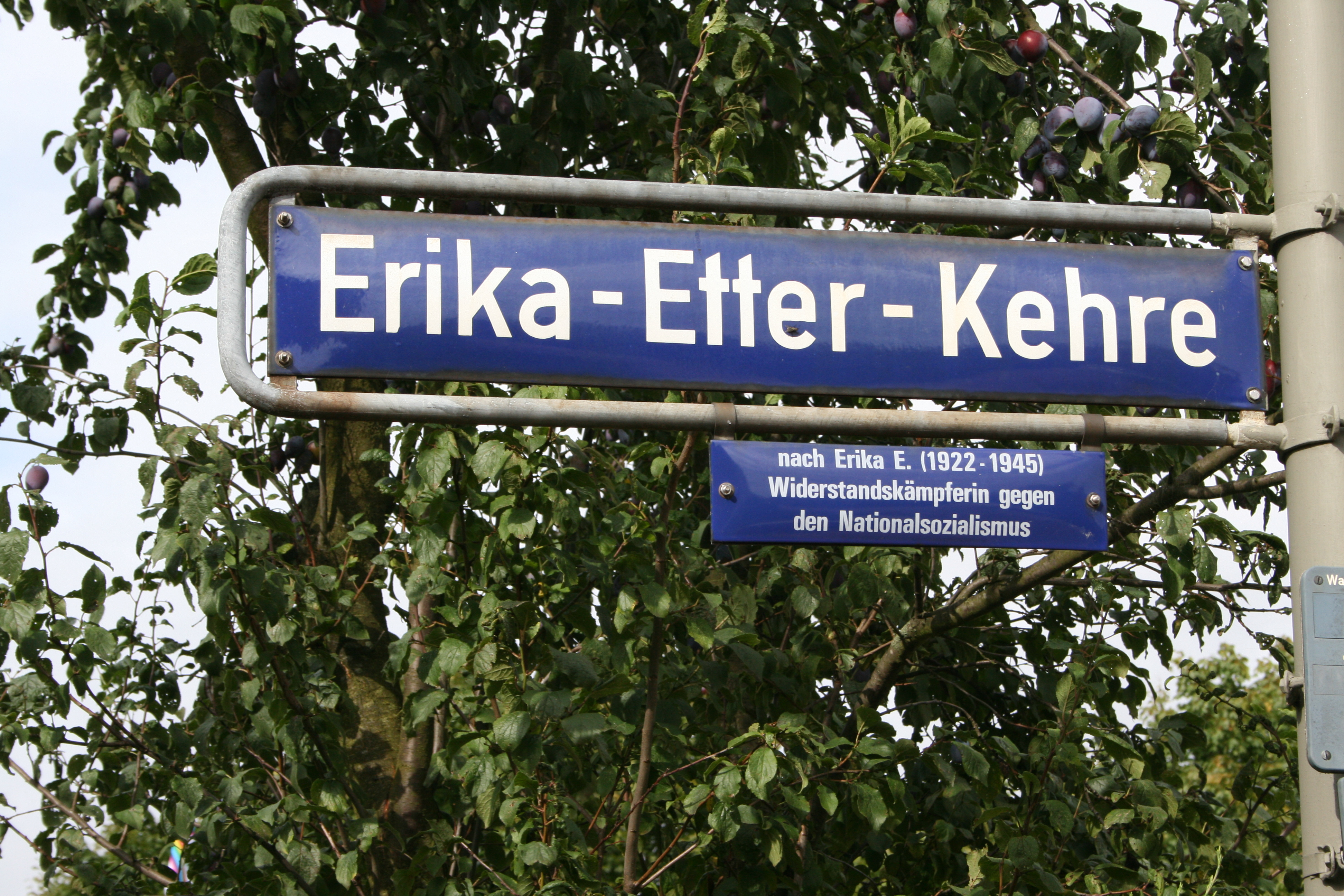 The Erika-Etter-Kehre in Hamburg-Neuallermöhe, named after Erika Etter, member of the resistance against Nazism